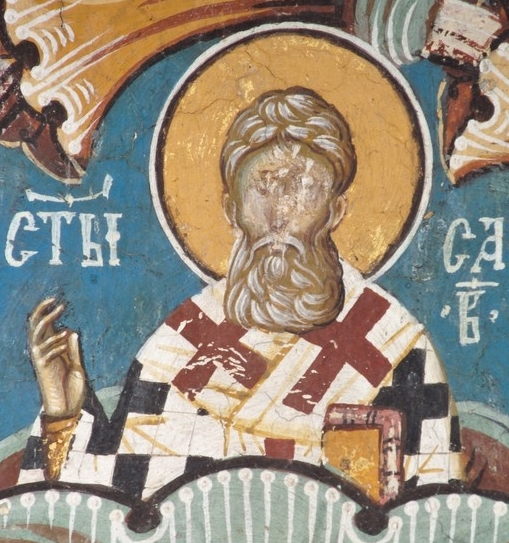 Detail of fresco Loza Nemanjića, Sava II (Predislav), Visoki Dečani, Serbia.